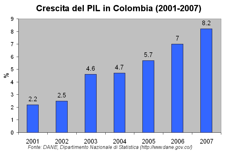 Italian version of File:Colombia - Crecimiento del PIB 2001 2007.JPG